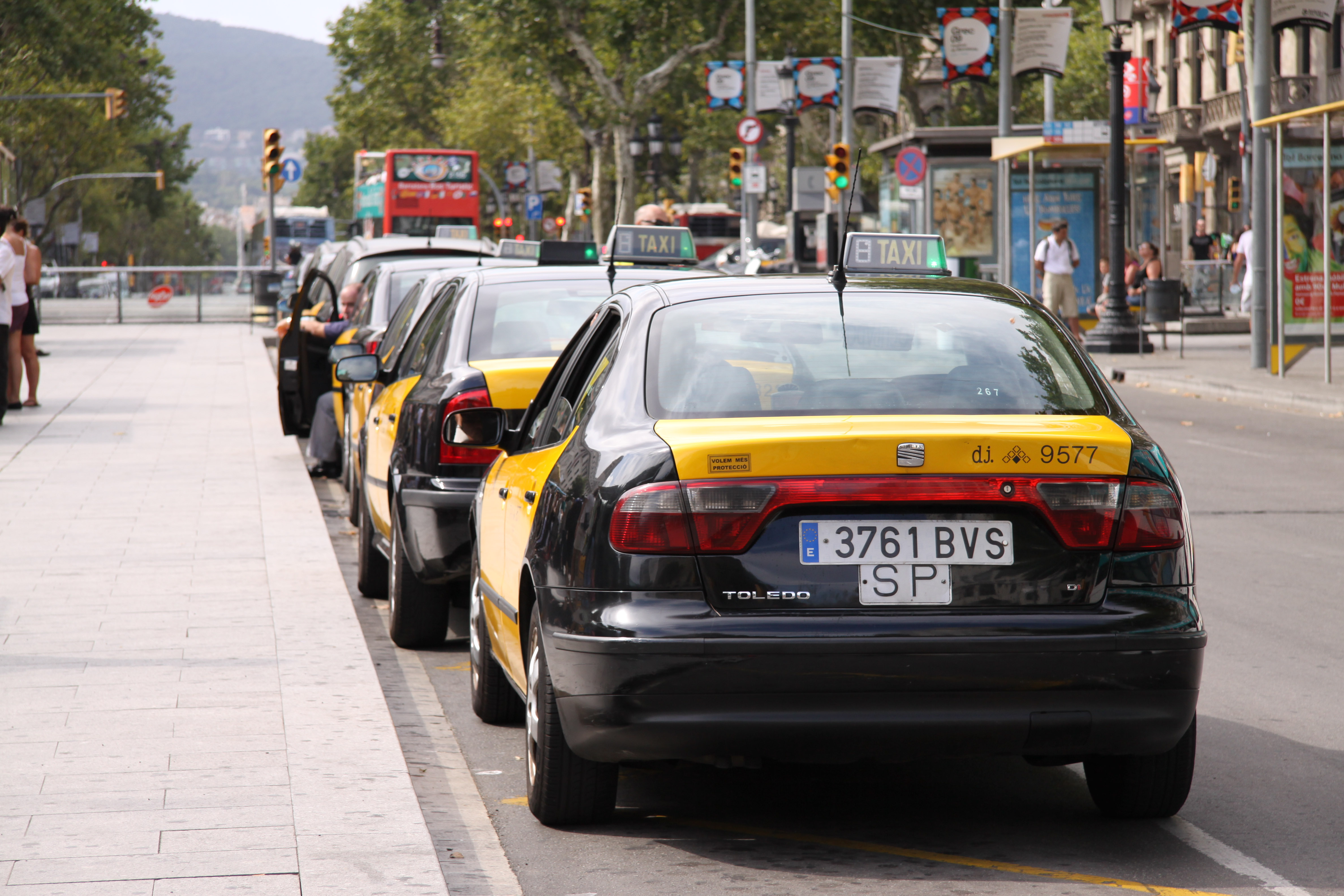 SEAT Toledo mk2 TDI taxi rear